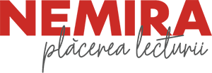 Logo Nemira Publishing House